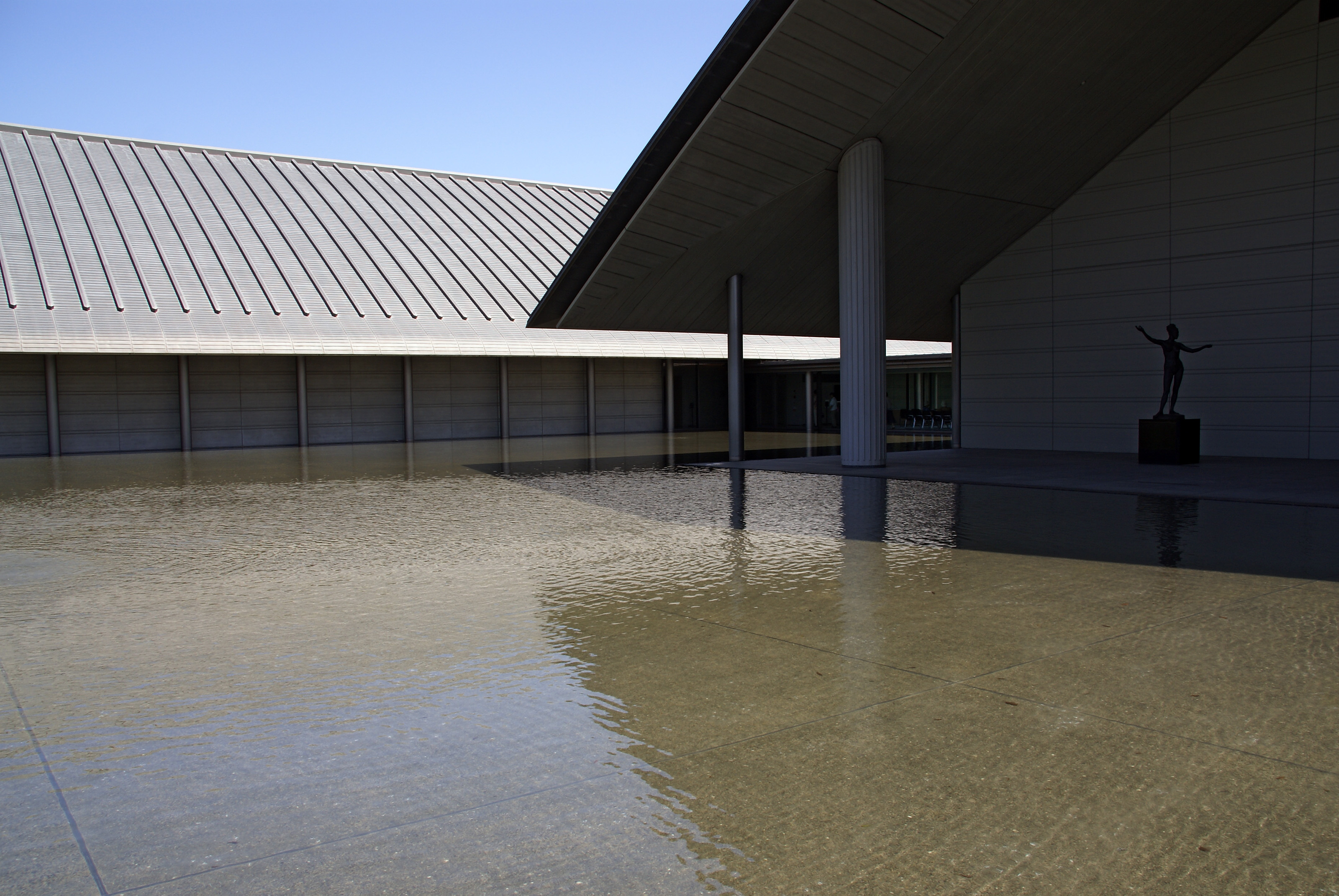 Sagawa Art Museum in Moriyama, Shiga prefecture, Japan